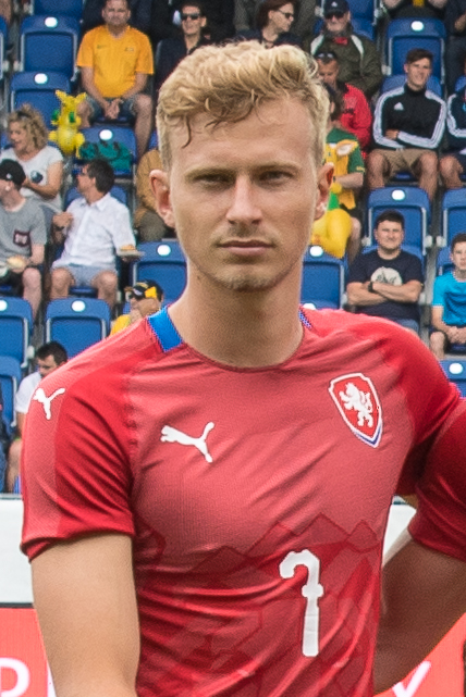 1/6/18St. Poelten, Austria, sports, football, International friendly - Australia vs Czech Republic. Image shows the team of Czech Republic.